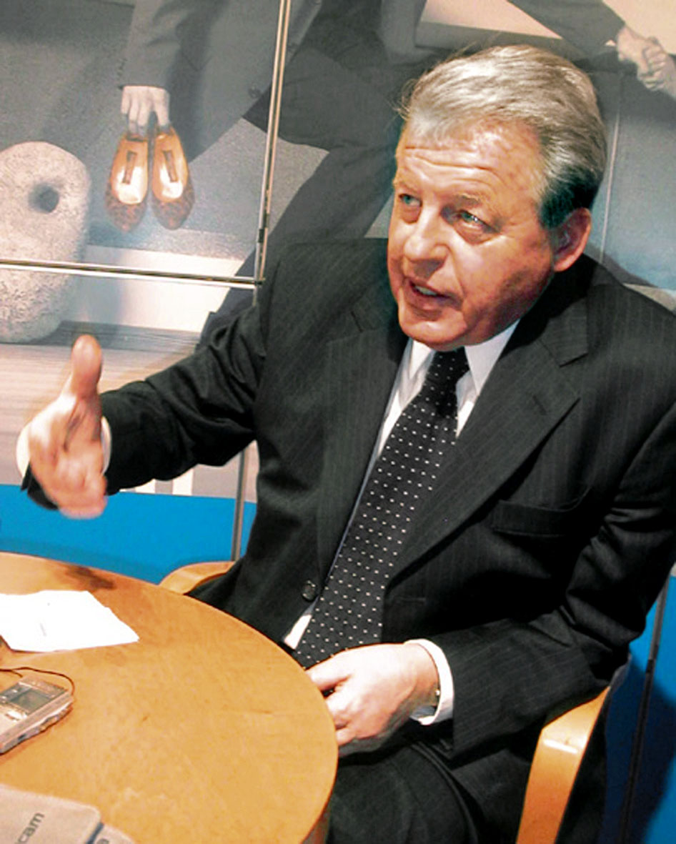 Former Austrian chancellor Franz Vranitzky